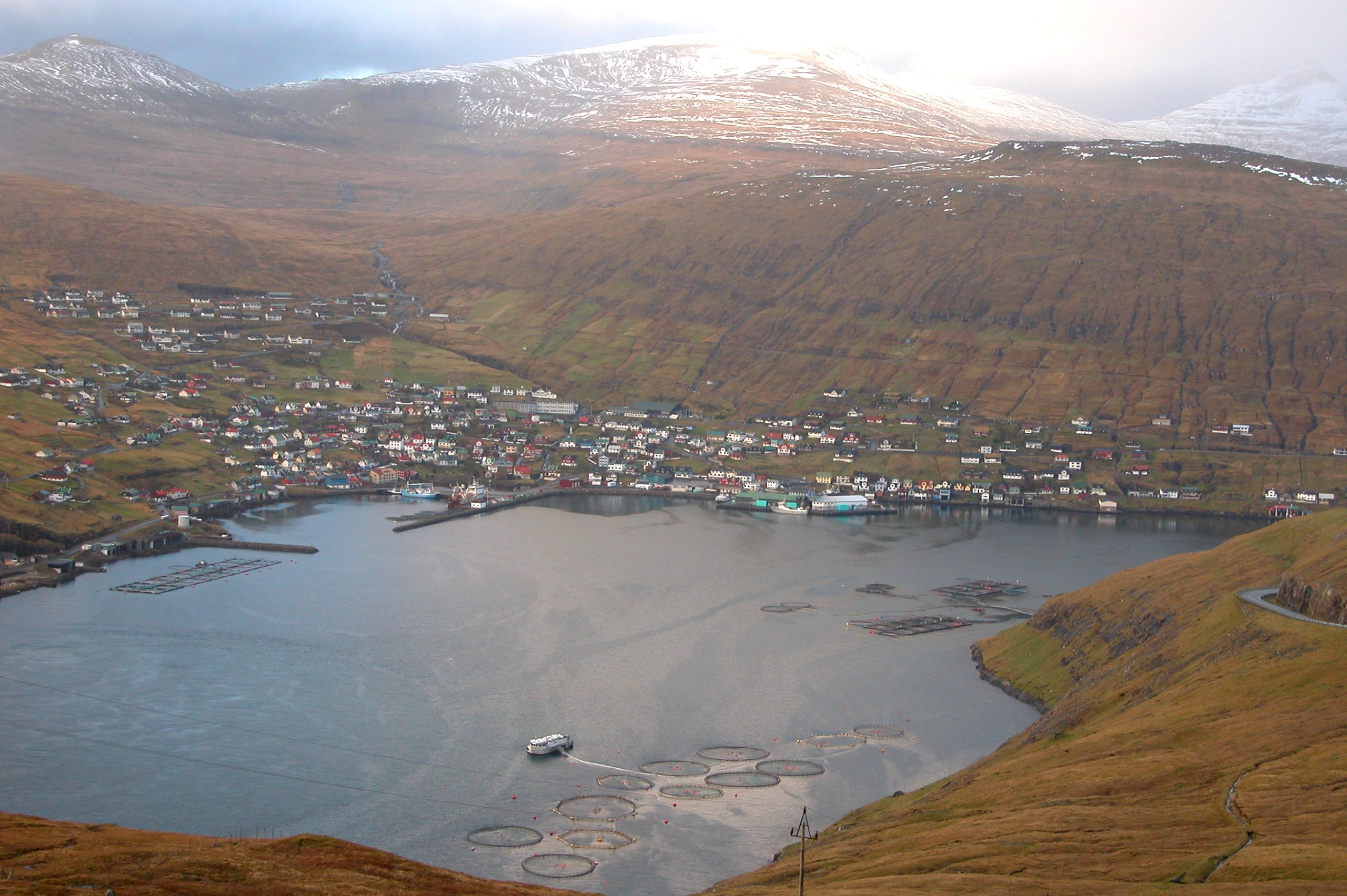 Vestmanna on Streymoy, Faroe Islands